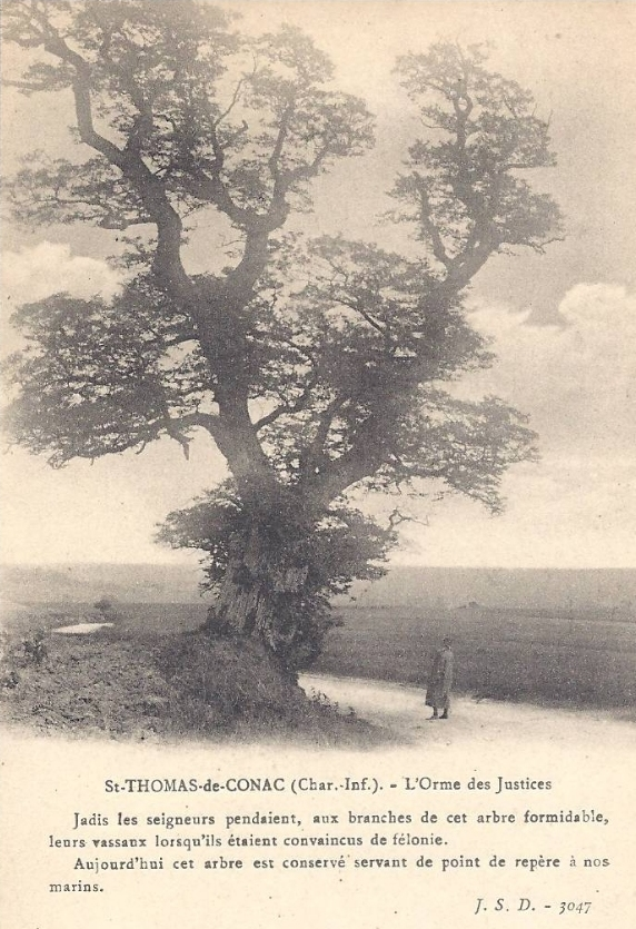 L'orme des Justices à Saint-Thomas-de-Conac (Charente-Maritime, France).